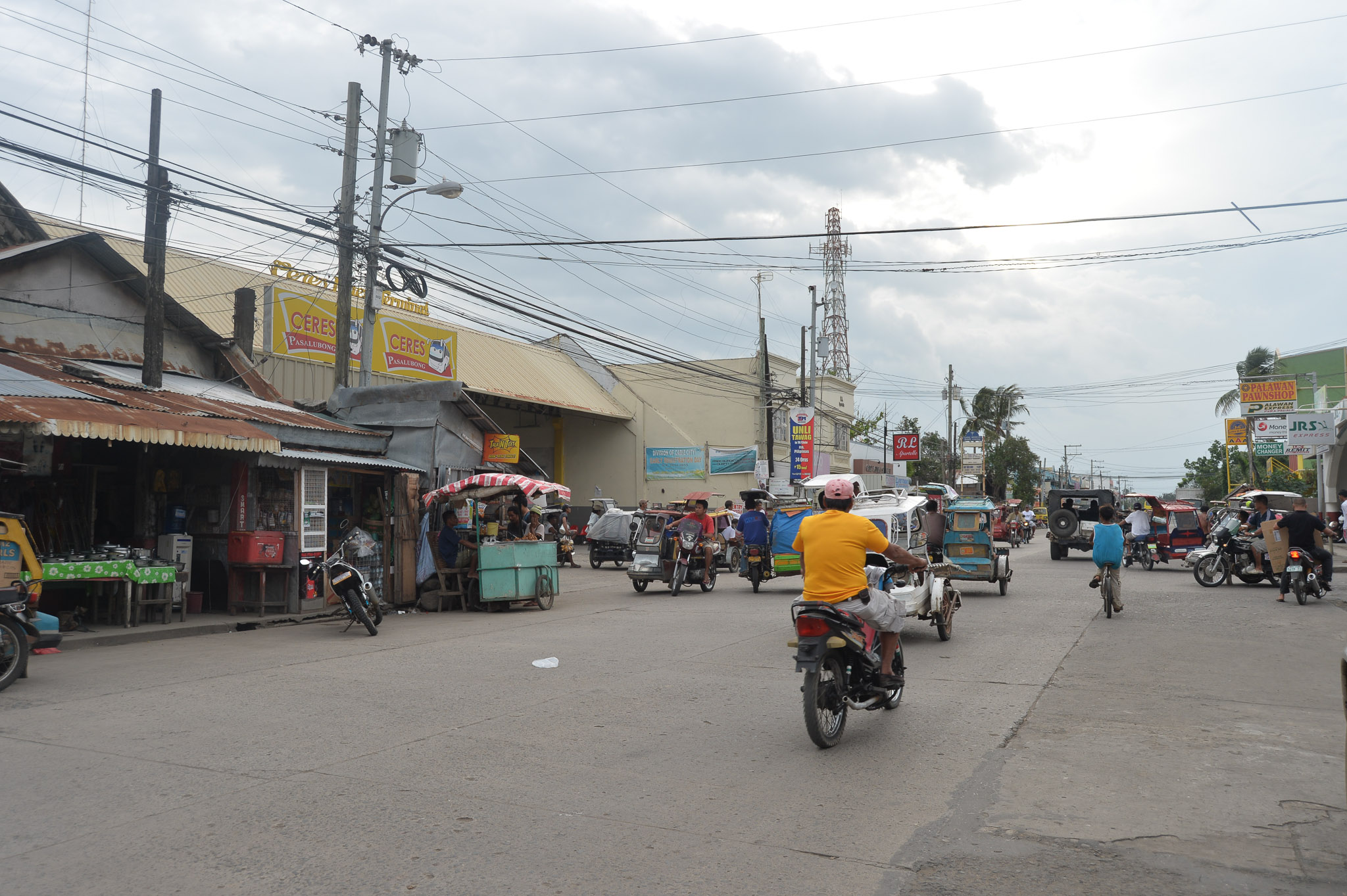 Cadiz City, Negros Occidental, Philippines